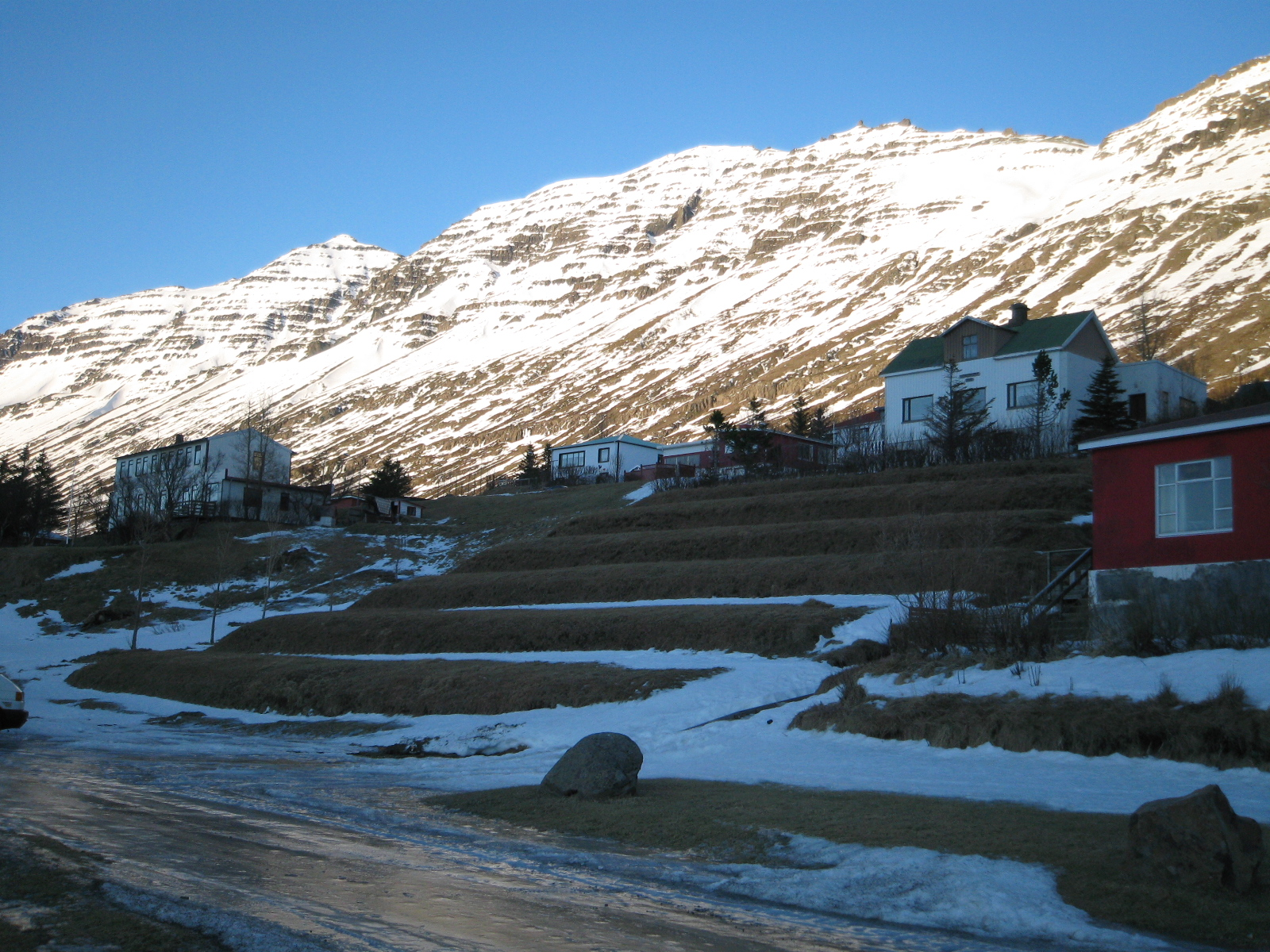 Neskaupstadur, Islandia 2007